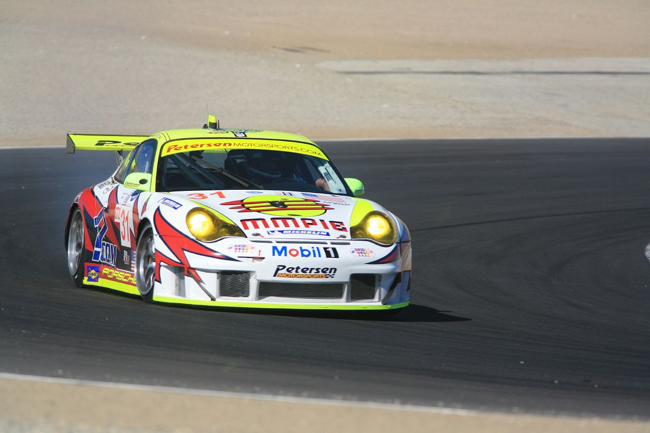 Jörg Bergmeister driving Petersen/White Lightning's Porsche 911 GT3-RSR